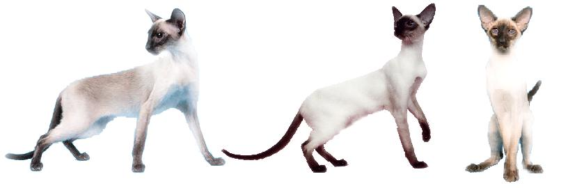 modern siamese, siamés moderno